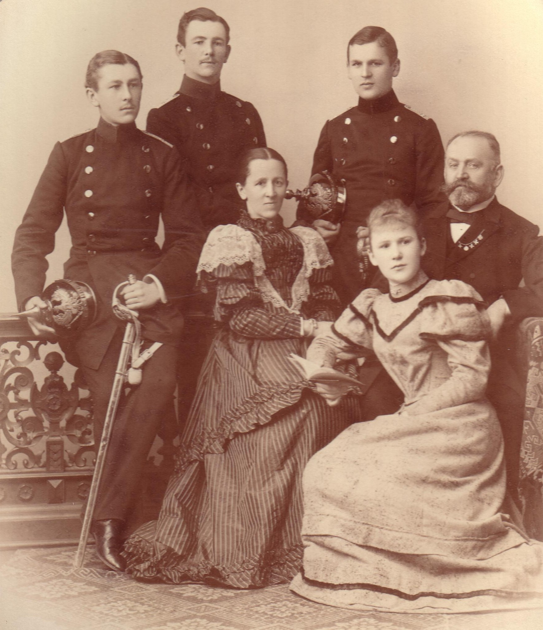 The young Erna von Dobschütz (1876-1963), german painter, with her family